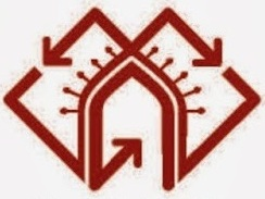 Metro Logo